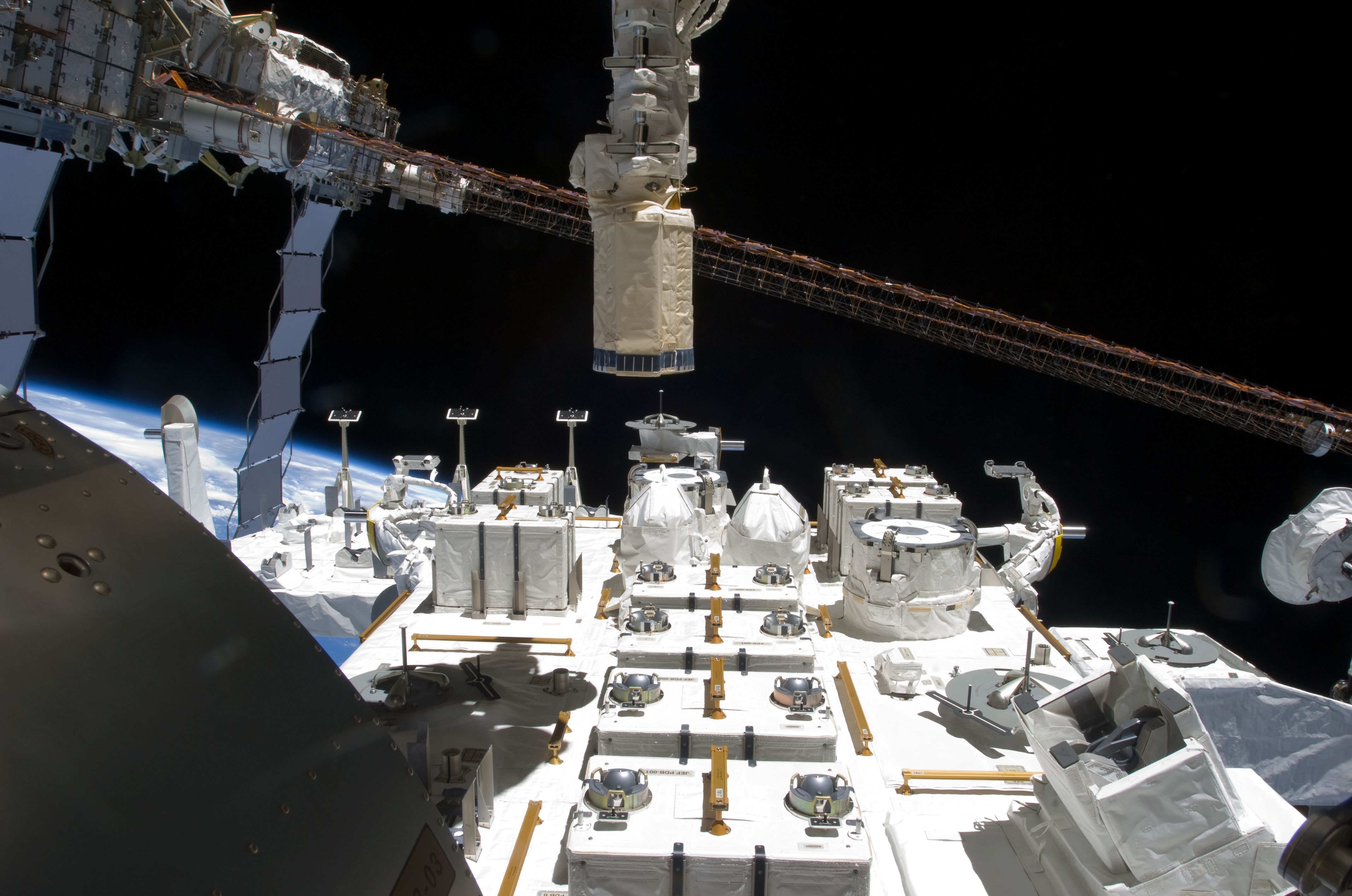 The Japanese Experiment Module - Exposed Facility is seen from inside Kibo on flight day eleven.